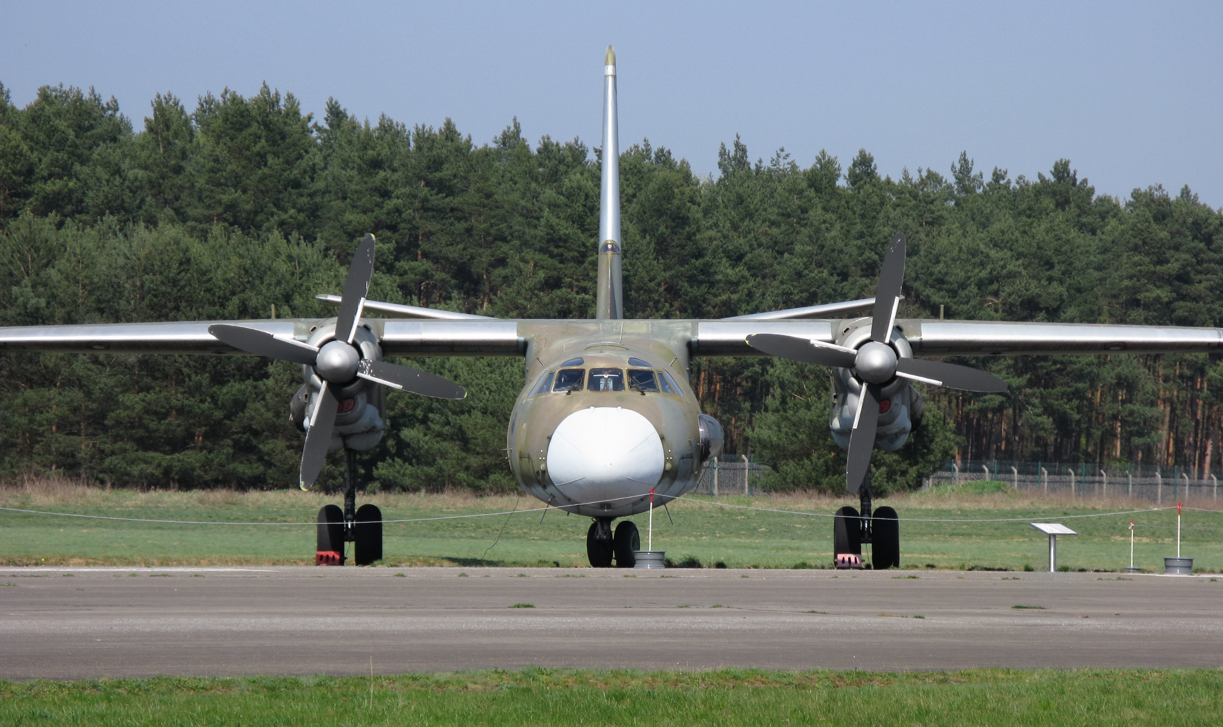 Air Force Museum of the Bundeswehr, Berlin-Gatow: Antonov An-26.